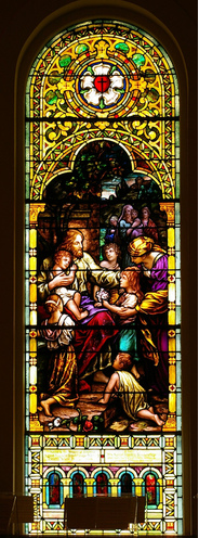 Stained Glass Window- First Lutheran Church (Springfield, Ohio)